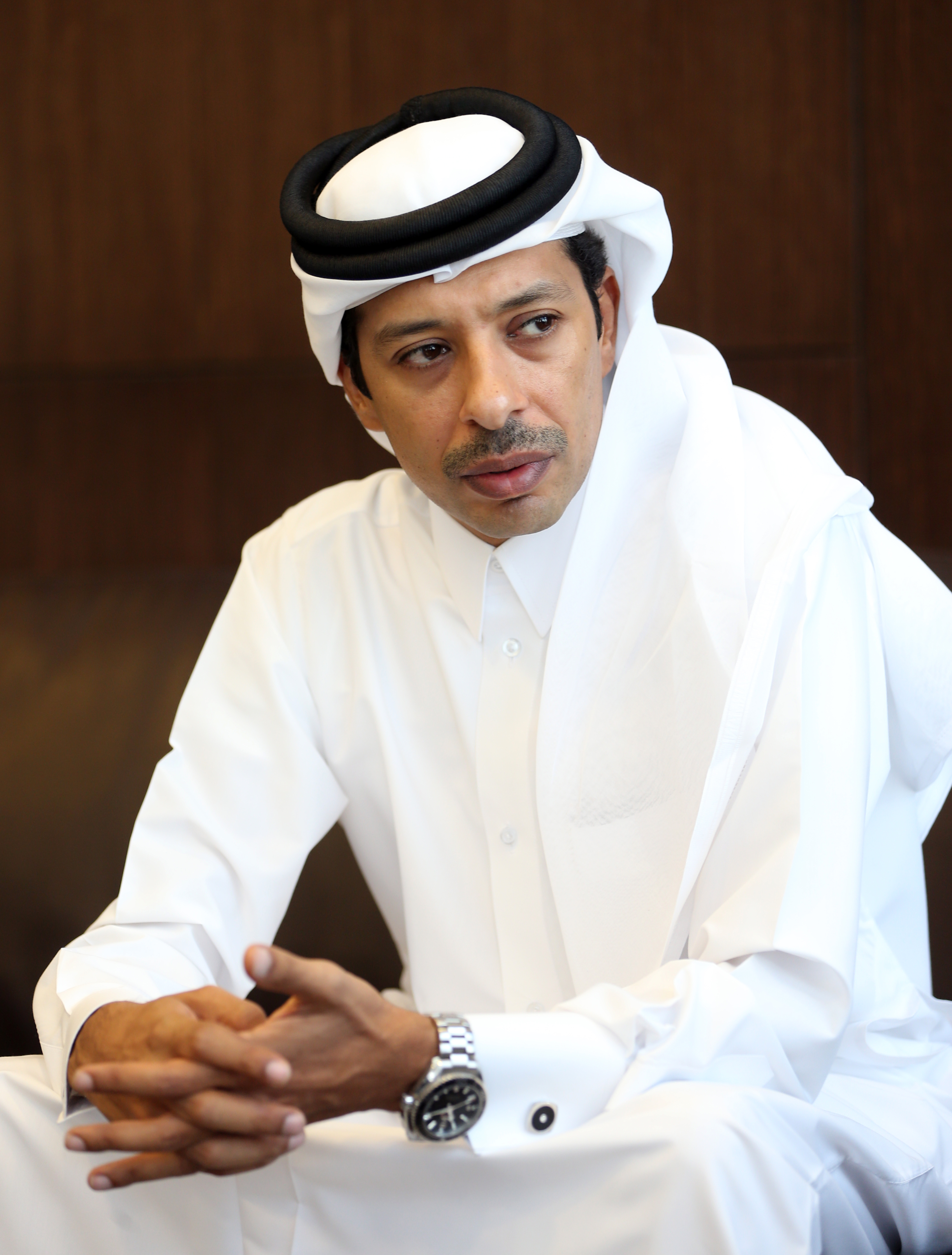 Qatari grandmaster Mohammed Al-Modiahki in 2013. Pic by Vinod Divakaran of Doha Stadium Plus Qatar.